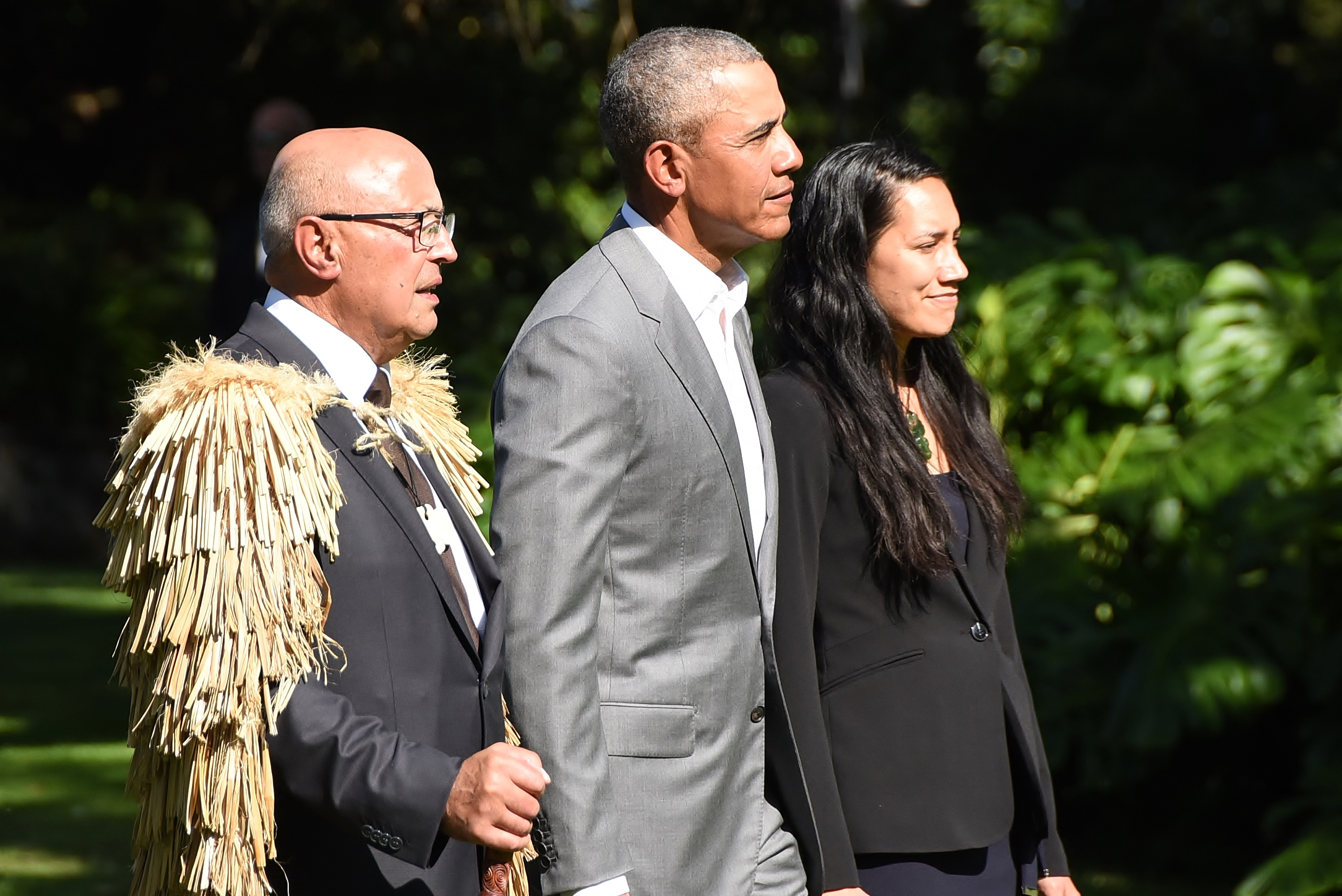 Piri Sciascia (left), Barack Obama (centre), and Te Amohaere Morehu, at the welcome for President Obama at Government House, Auckland, on 22 March 2018.